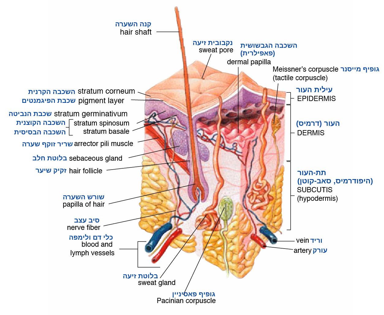 Anatomy of the human skin with Hebrew and English labels